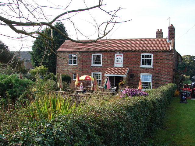 Vine Inn, South Thoresby Well worth the drive for Sunday Lunch. Enormous portions of meat and a wide variety of scrumptious vegetables all hand cooked on the premises. My mouth is watering as I type!